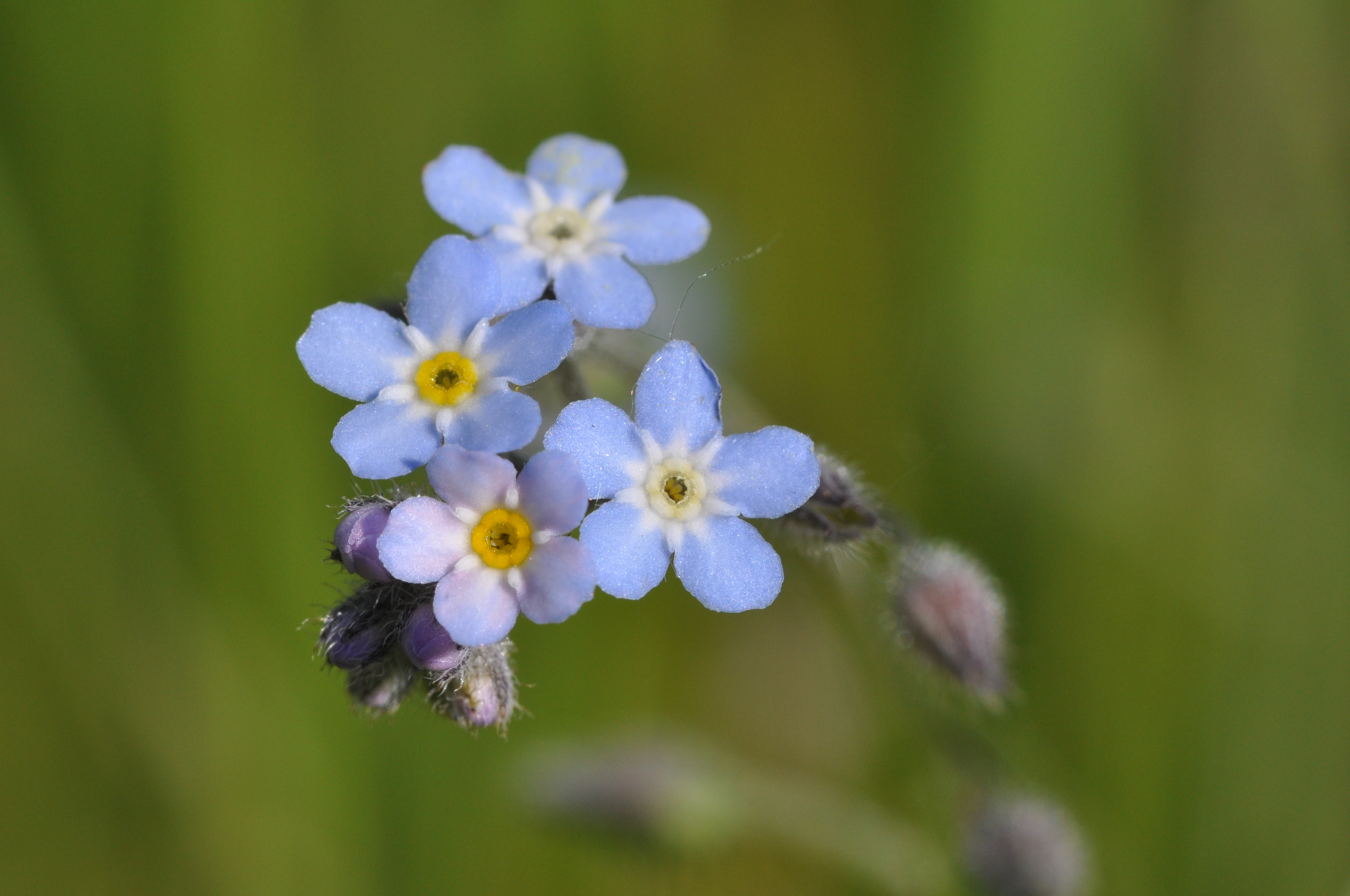 Field Forget-me-not in Bahrenfeld, Hamburg.